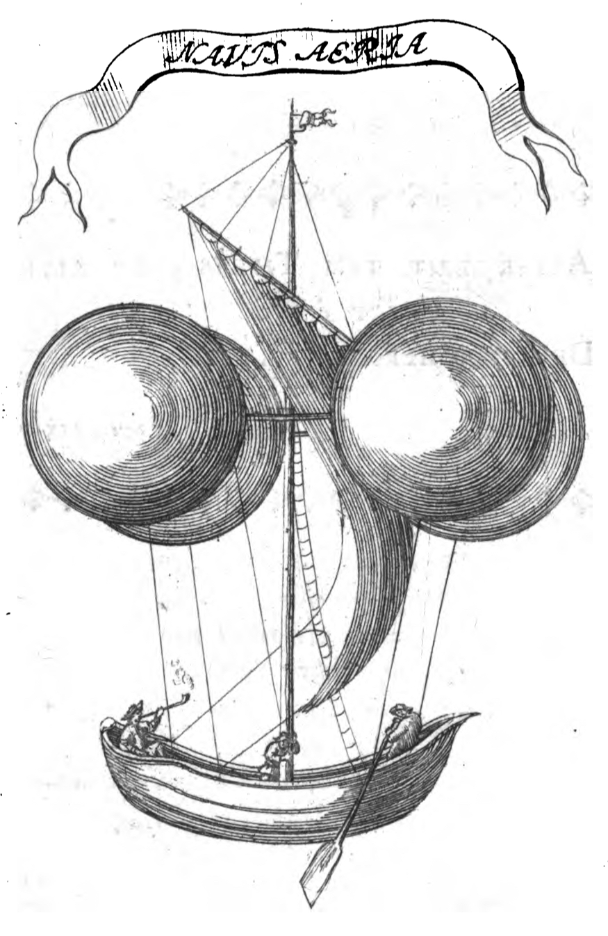 Drawing of an airship by Bernardo Zamagna